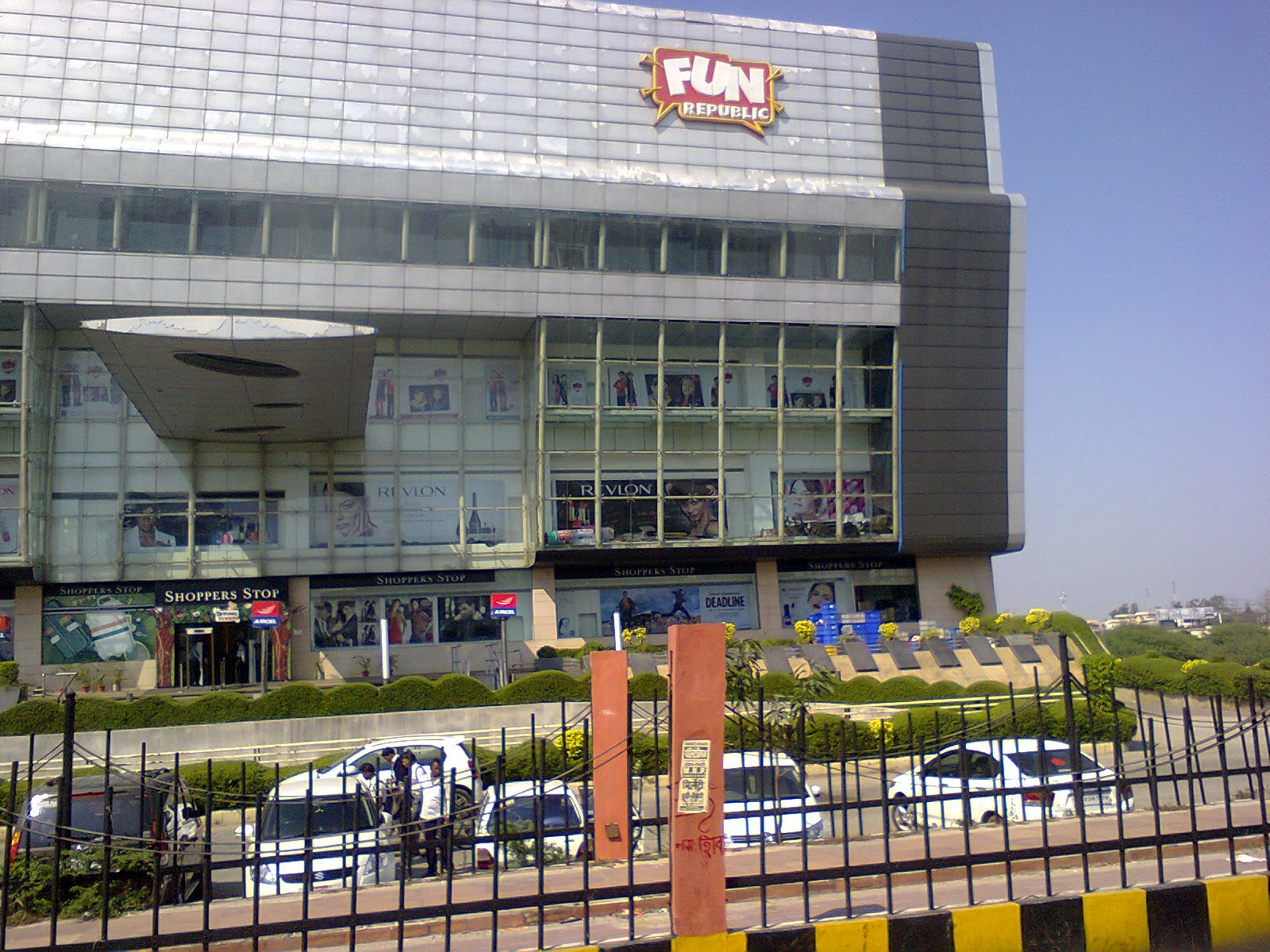 Fun Republic Mall, Gomti Nagar, Lucknow Picture taken by Faiz Haider, using Nokia C2-03 phone on Saturday, March 07, 2013, 14:04 PM.